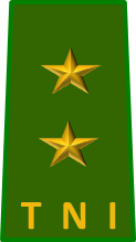 Major General rank insignia that used on daily uniforms of Indonesian Army